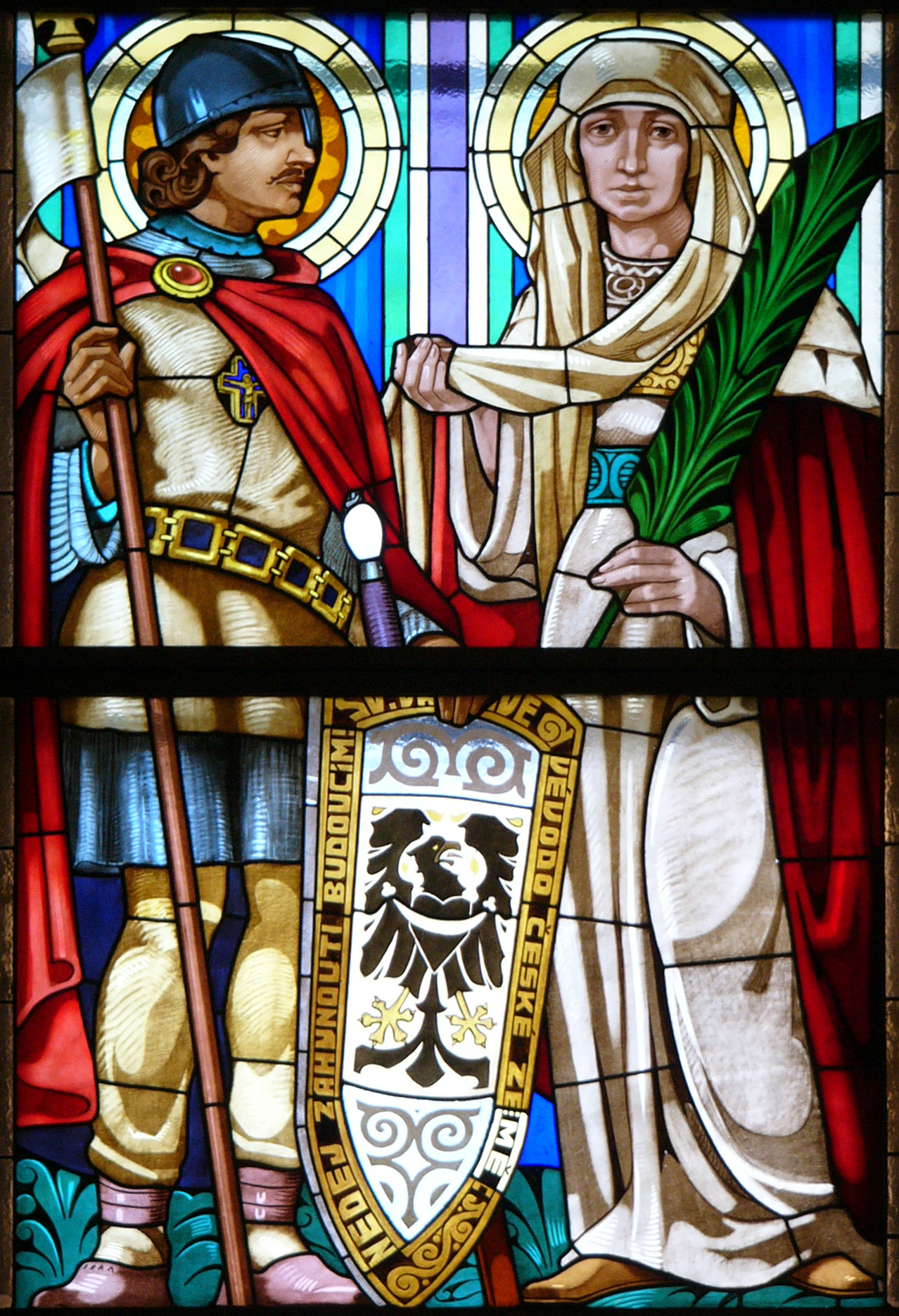 Wenceslaus I, Duke of Bohemia and Saint Ludmila in Sts. Cyril and Methodius's church in Olomouc (Czech Republic). Idealized depiction because in the year of the death of saint Ludmila was Wencelaus about 14 years old.